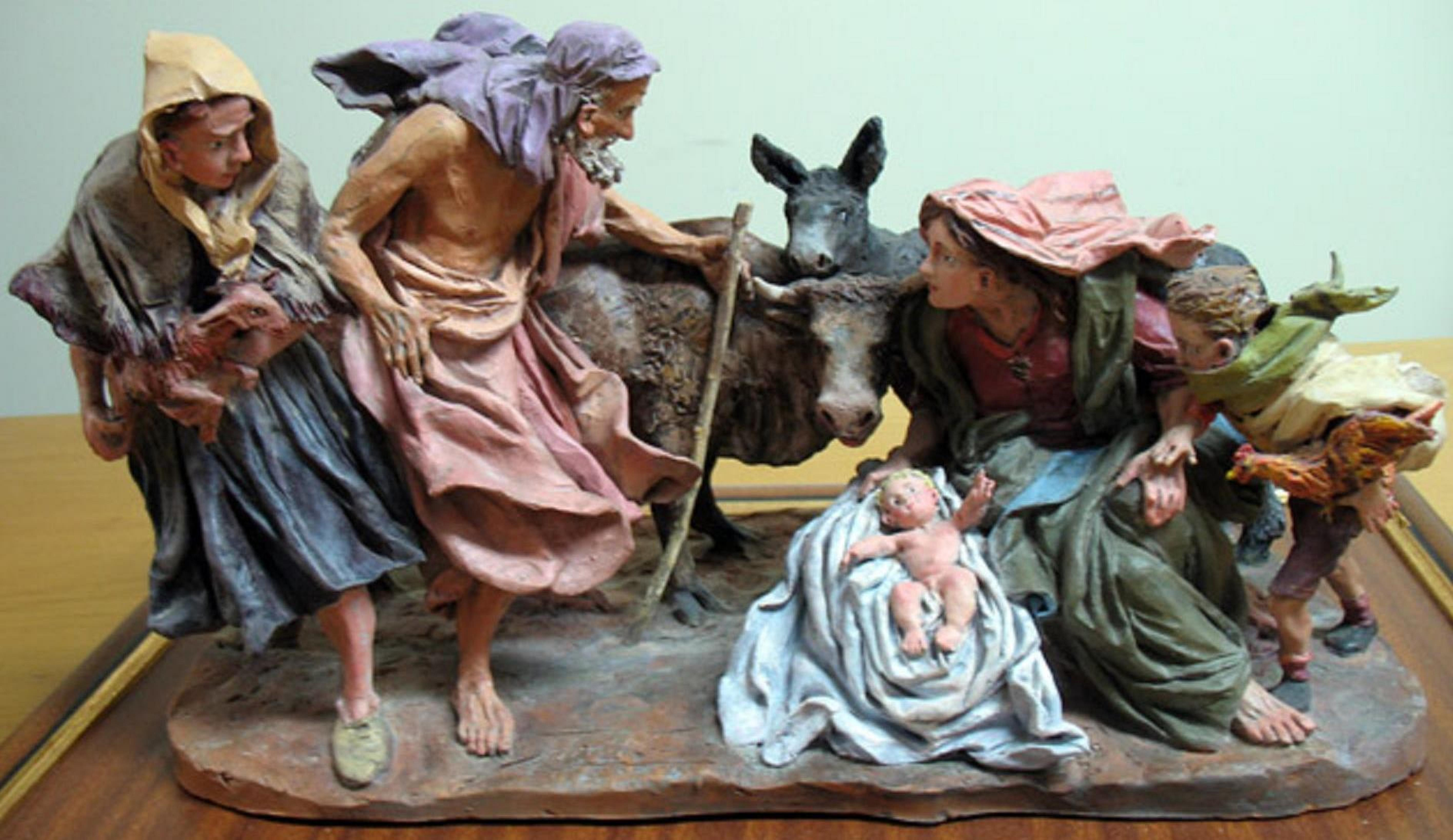 Nativity from catalonian sculptor Josep Traité i Compte